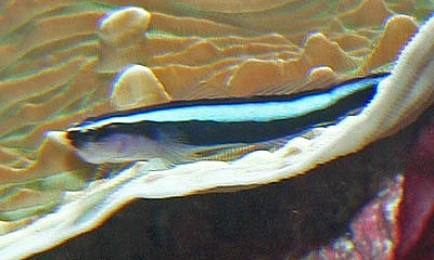 Photo of Gobiosoma oceanops at the Birch Aquarium in San Diego, taken November 2005 by User:Stan Shebs